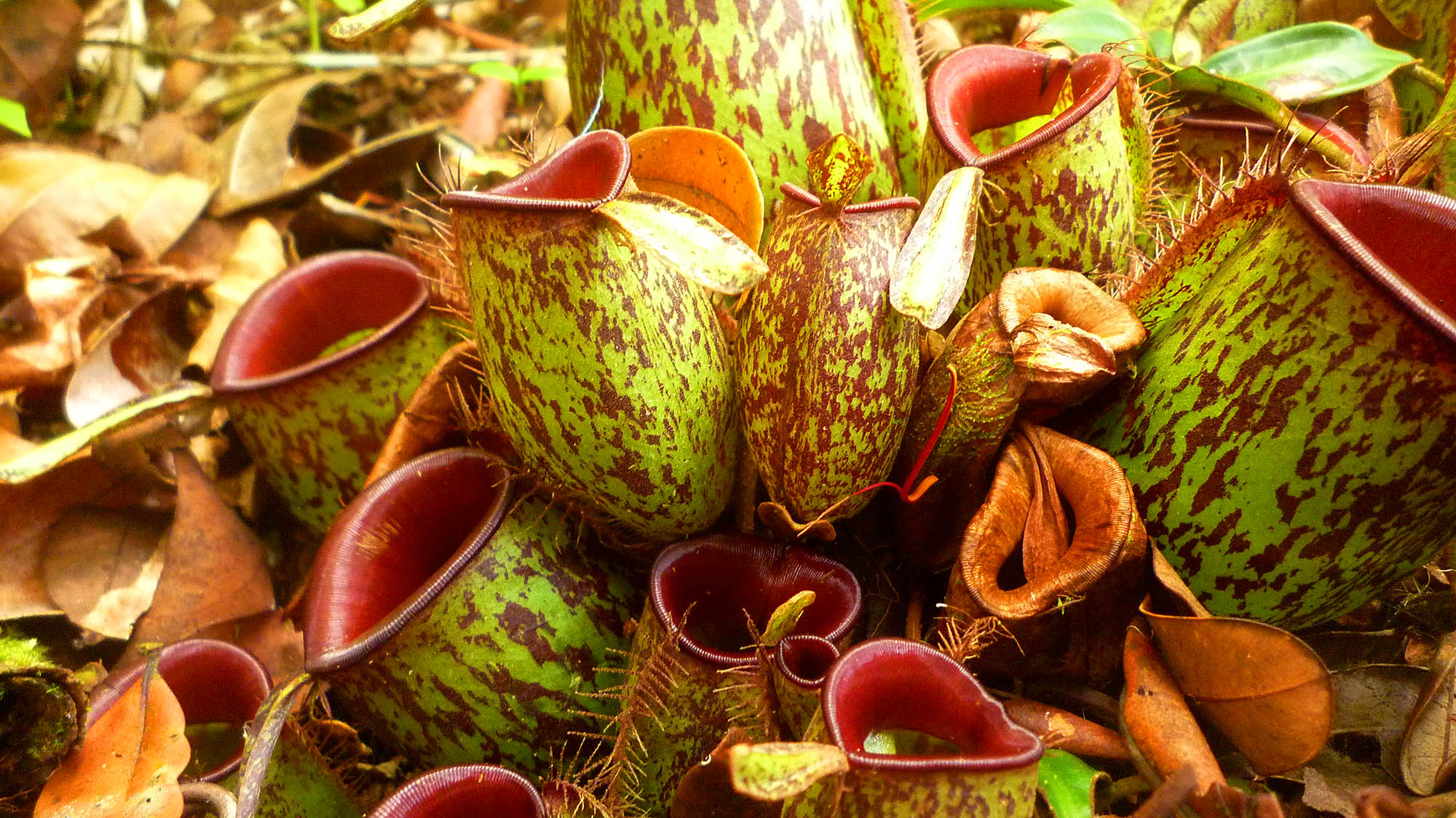 Nepenthes ampullaria in Tanjung Puting National Park,Central Kalimantan, Borneo.